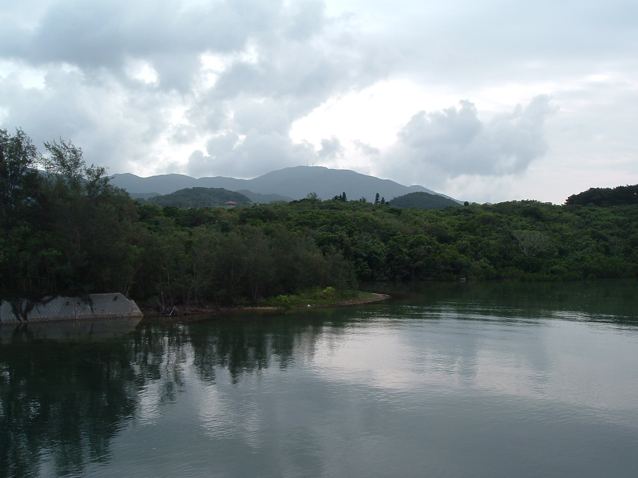 Mt.Omoto